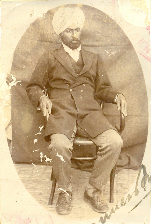 scan of family album photo